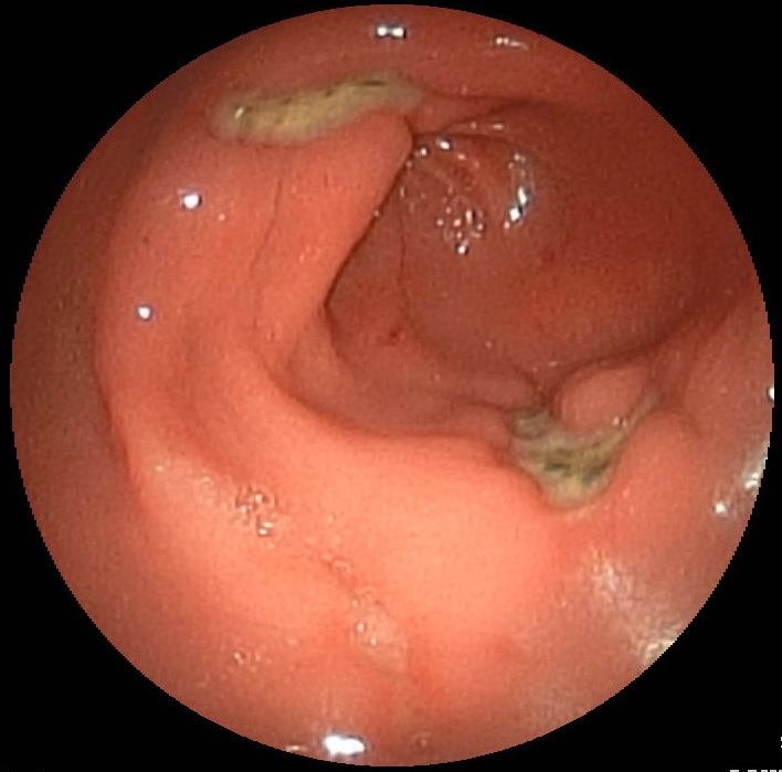 Esophagogastroduodenoscopy Image of gastric ulcers in antrum